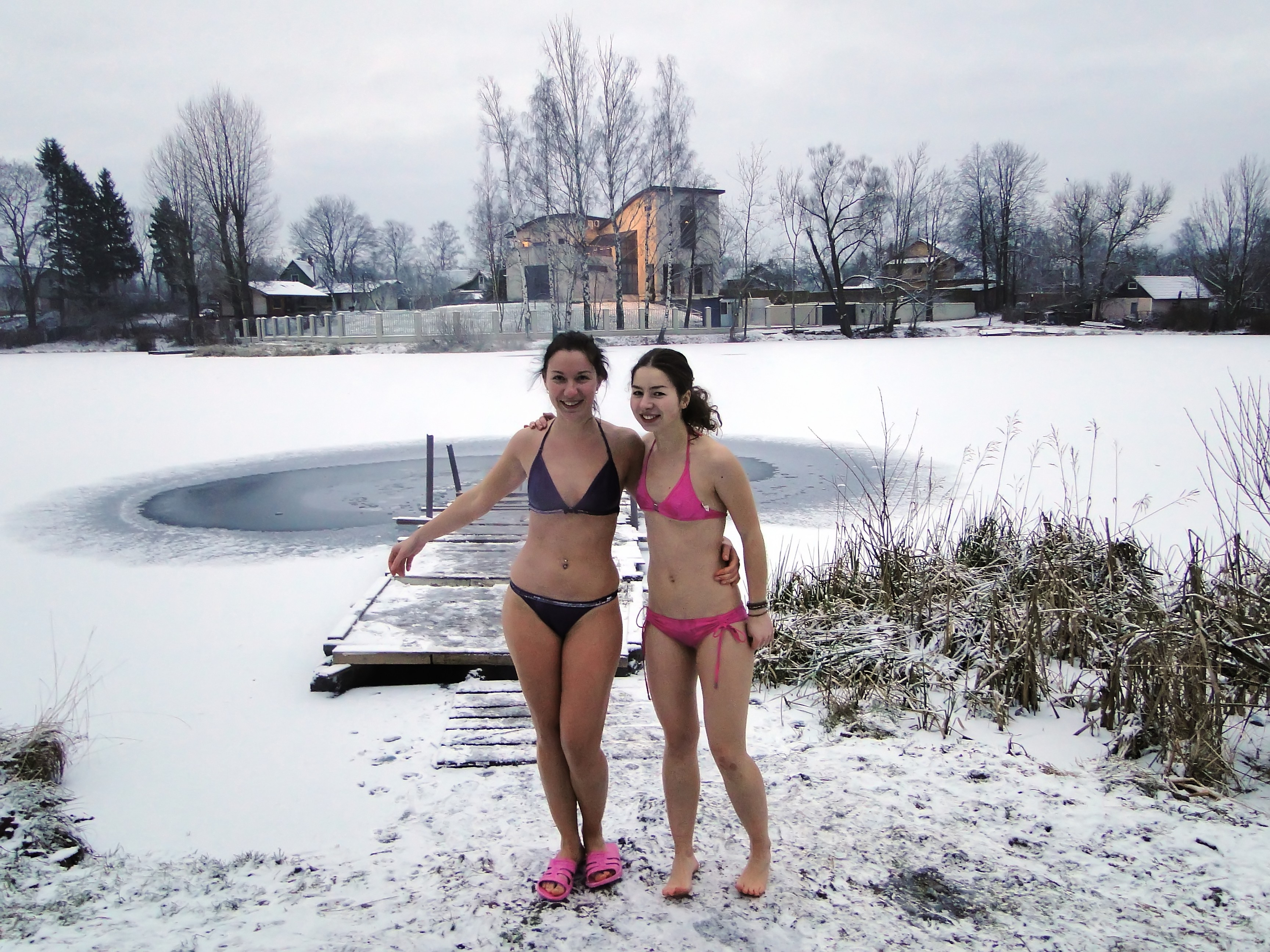 Winter event in Russia: Two young ladies will bath in a frozen lake.